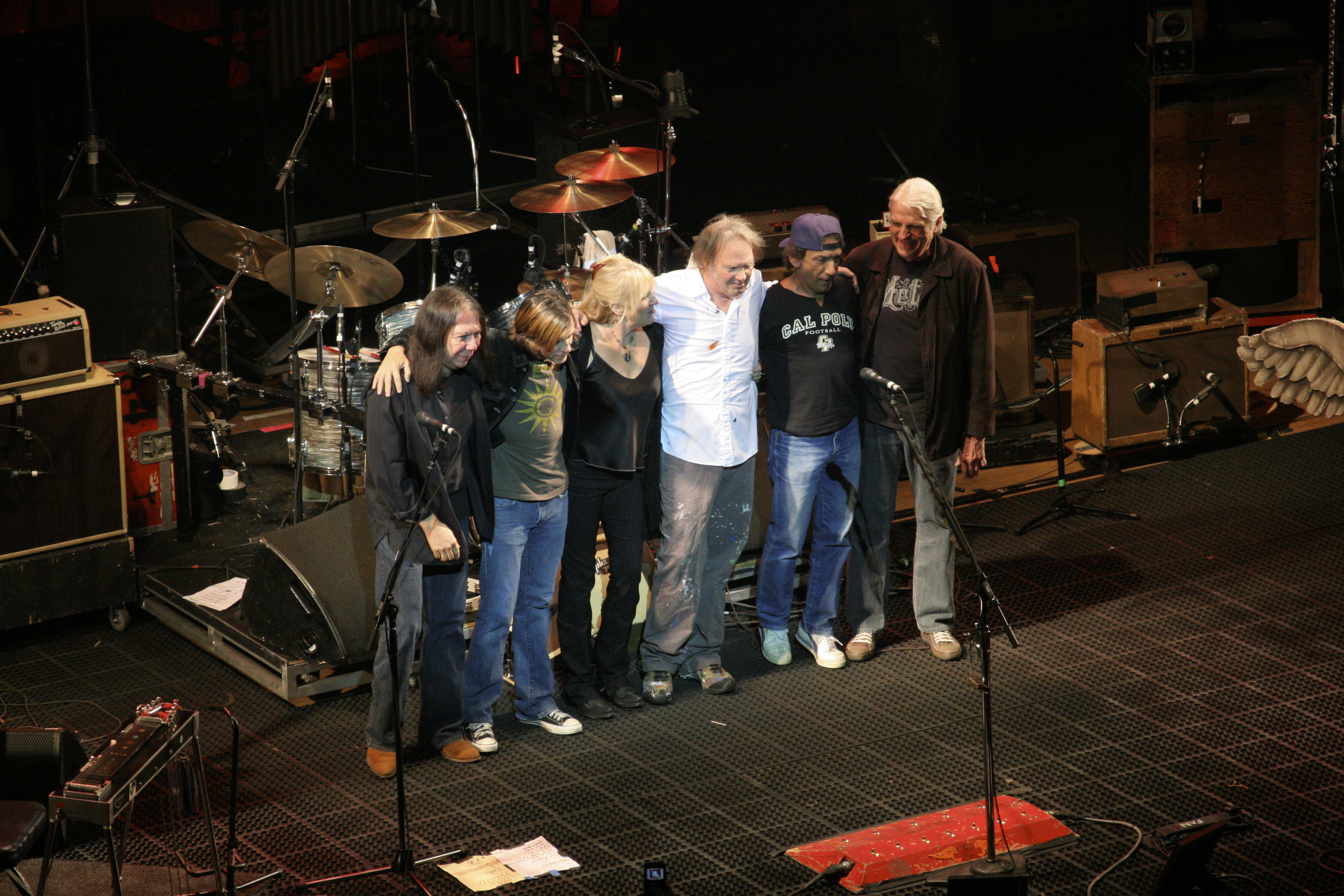 Neil Young with his band (Rick Rosas, Anthony Crawford, Pegi Young, Neil, Ralph Molina and Ben Keith) in Toronto.